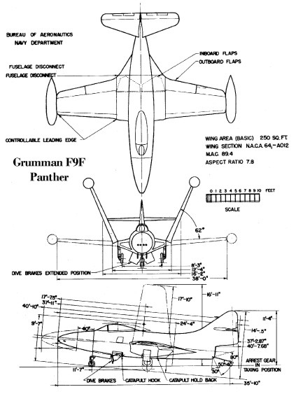 A 3-side-view of a Grumman F9F Panther.